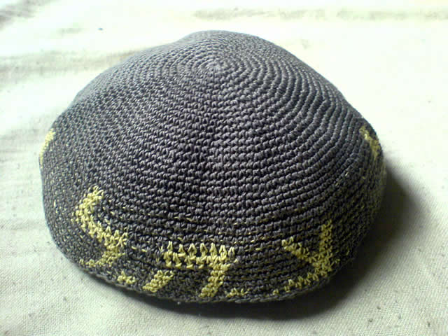 Kippah with IDF acronym